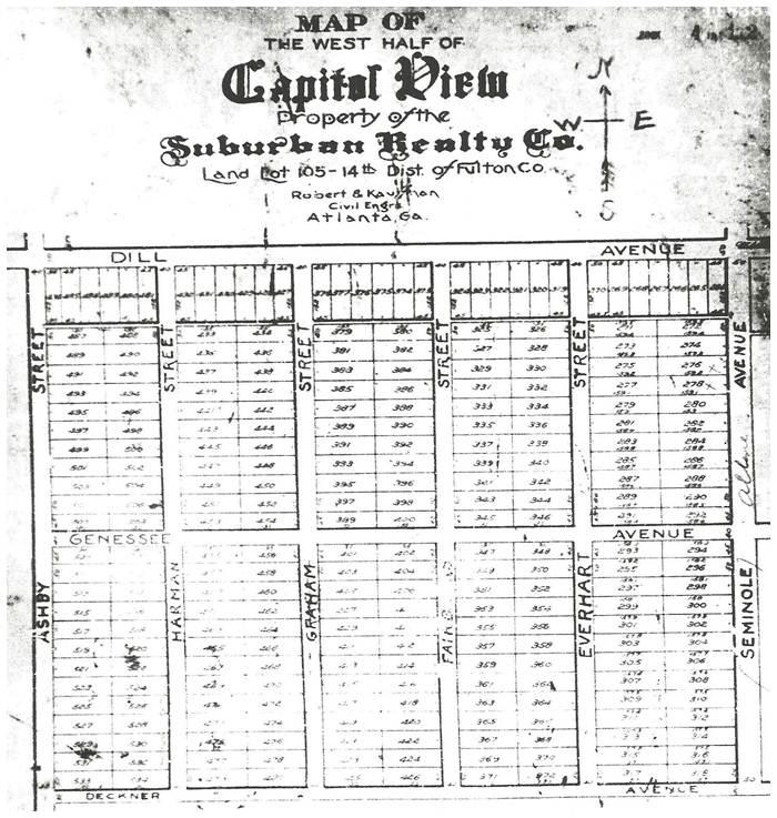 Capitol View historical plans 2014